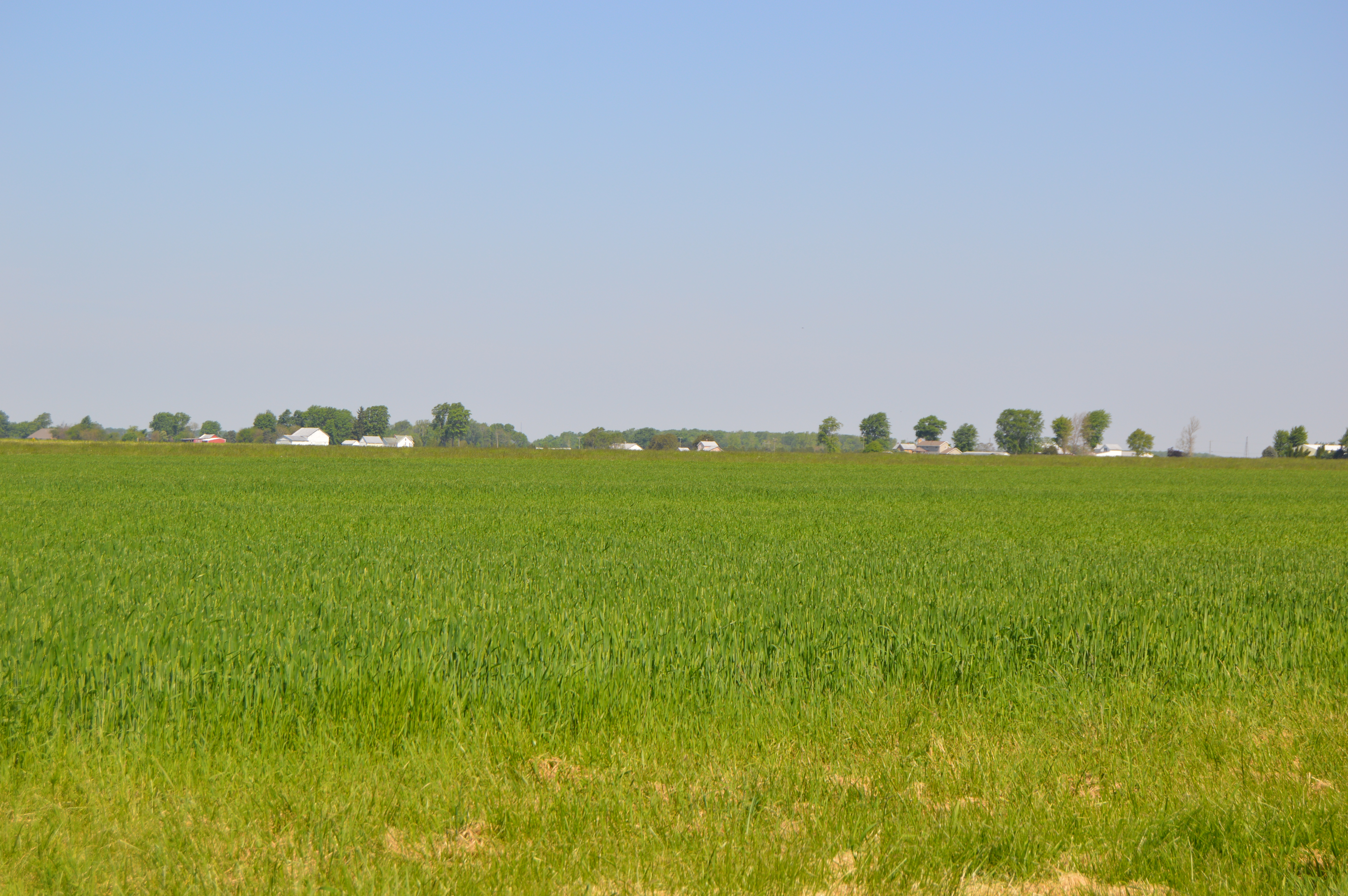 Wheat field on the northern side of U.S. Route 6 west of Helena on the southern edge of Madison Township, Sandusky County, Ohio, United States.